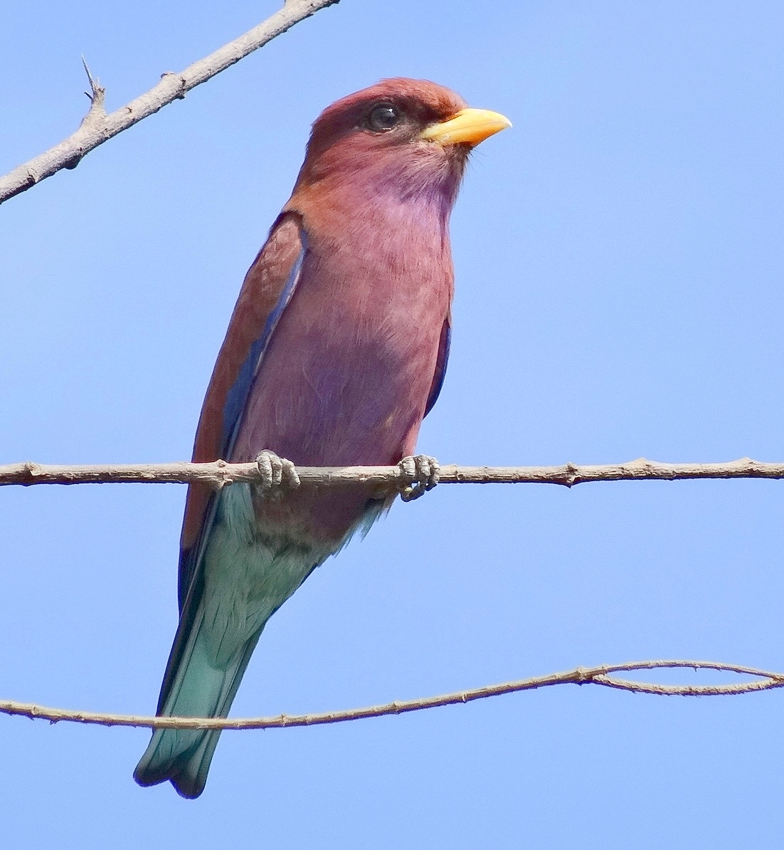 In The Gambia several bird species occur which display a range of colours. The Broad-billed roller (Eurystomus glaucurus afer) is one of these.